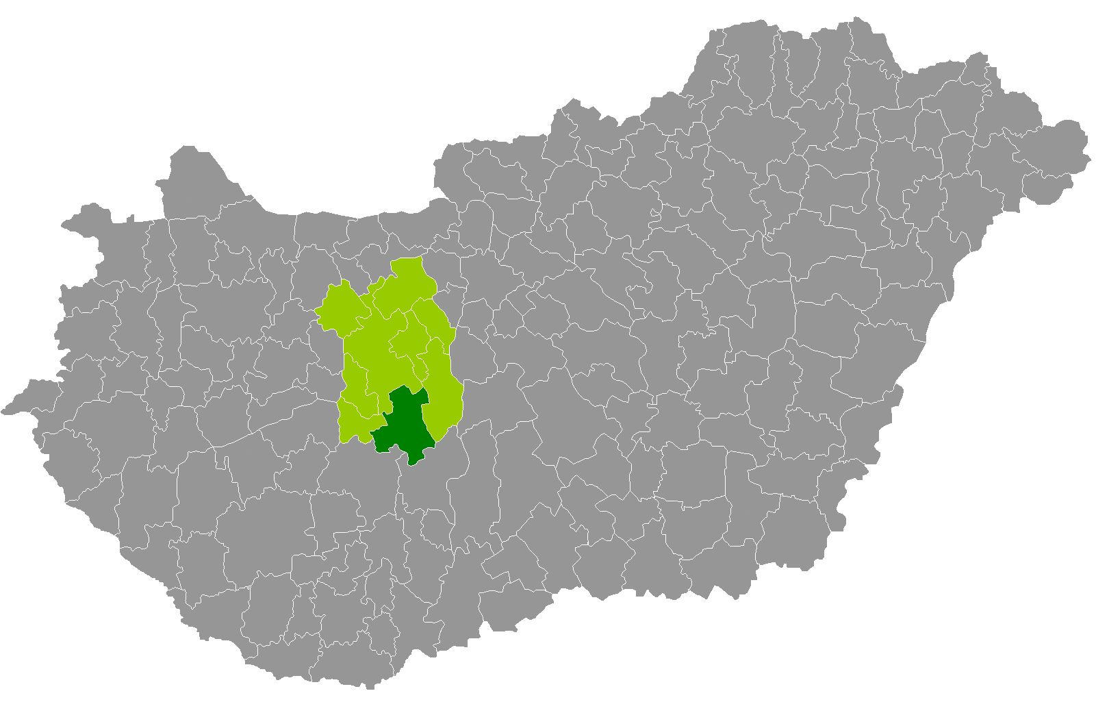 Location of Sárbogárd District, Fejér, Hungary